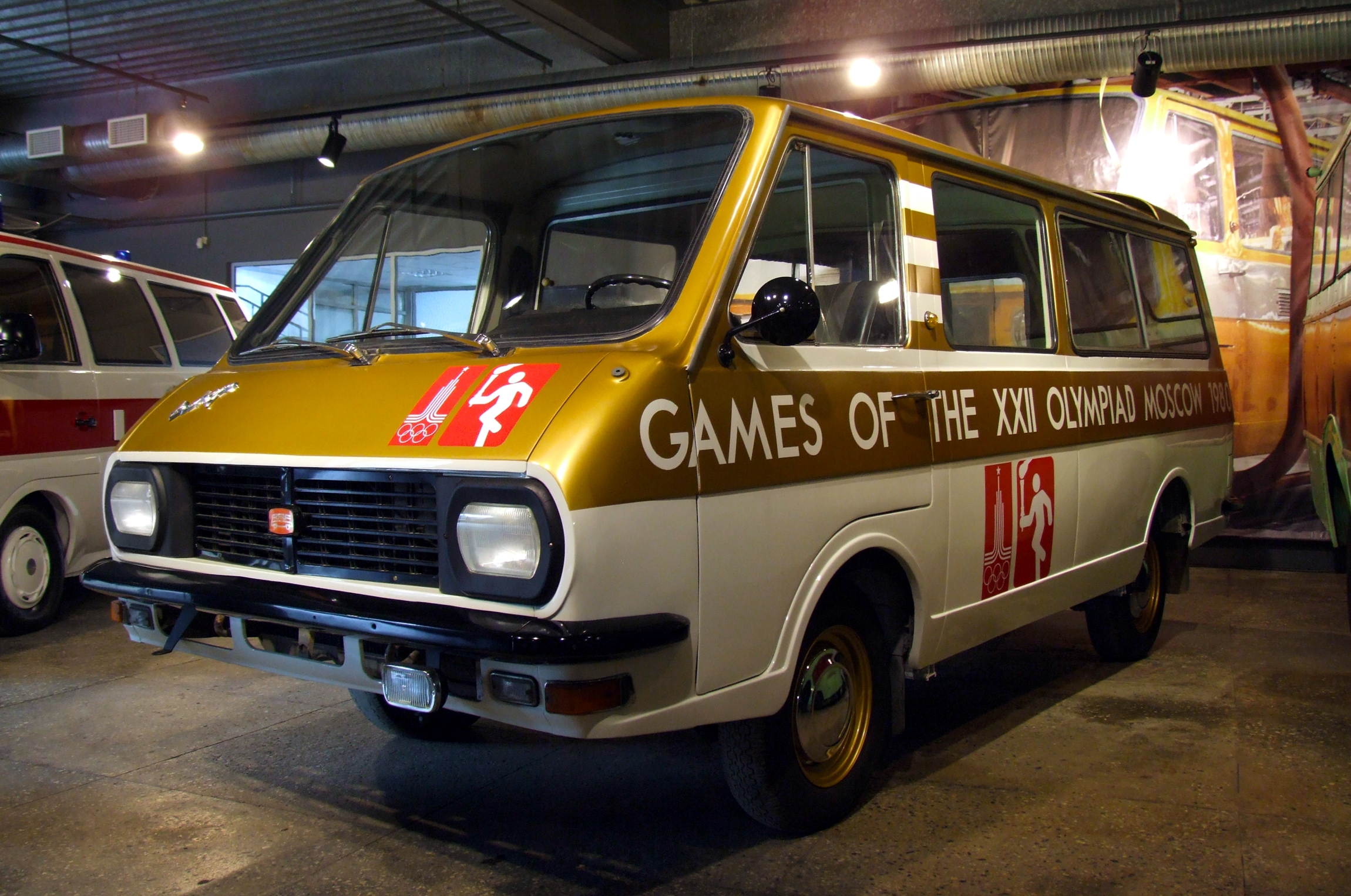 RAF-2907, based of RAF-2203 "Latvija". Around 300 vehicles for the Olympic Games were manufactured by January 1980